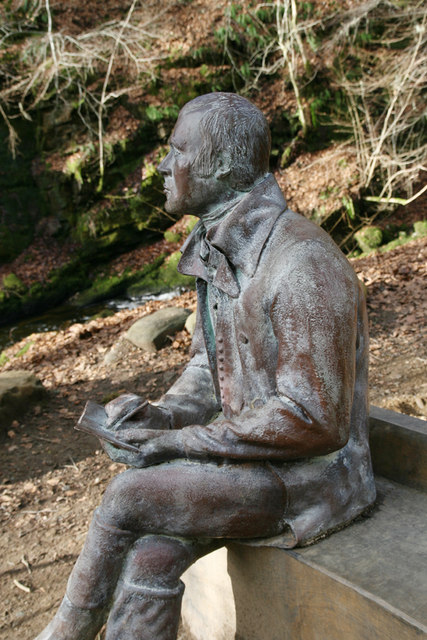 The Birks of Aberfeldy: Robert Burns statue A recently installed statue of Burns by the Urlar Burn commemorates his poetic tribute to the Birks.